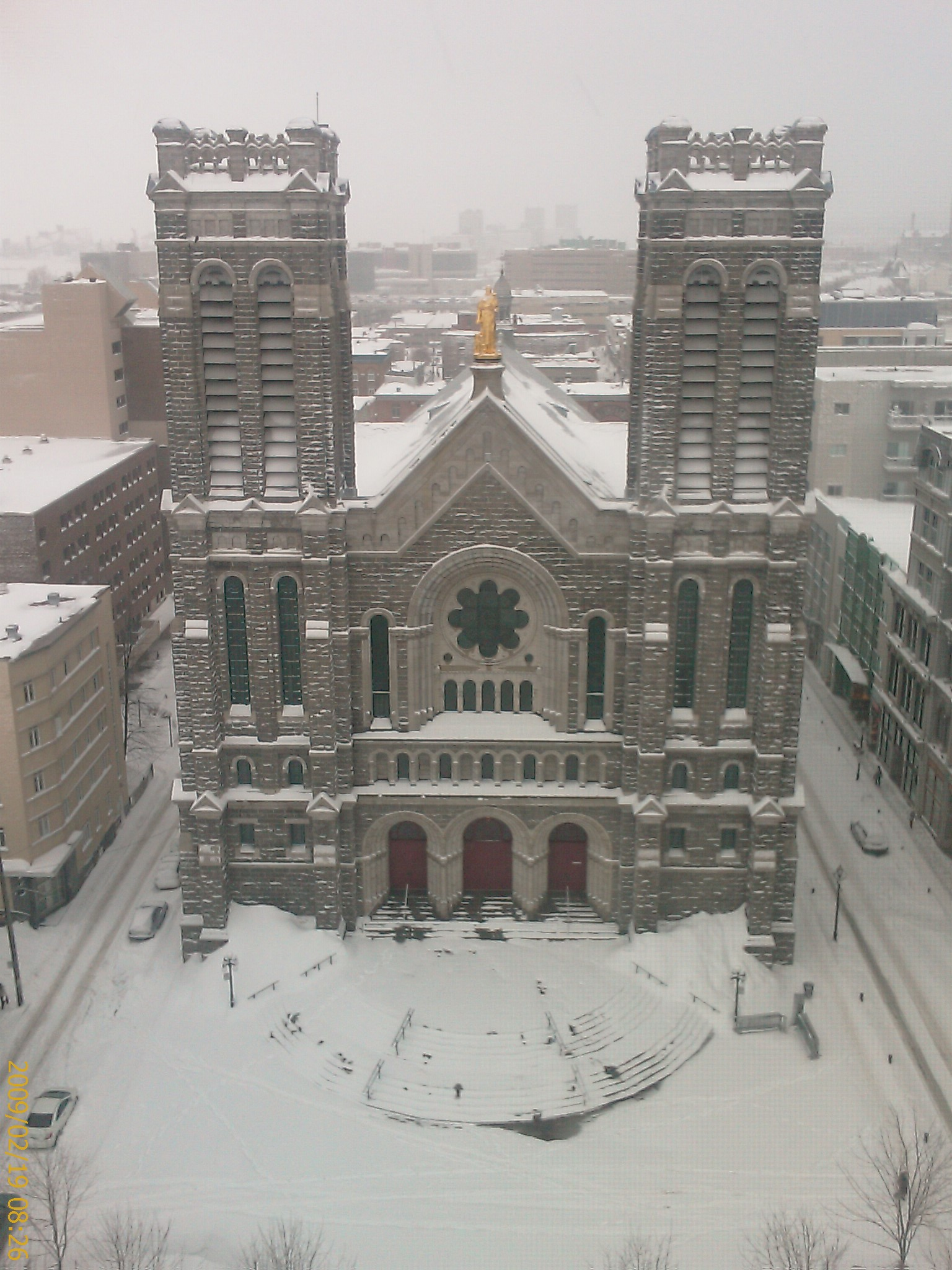 Saint-Roch, Québec City, QC, Canada